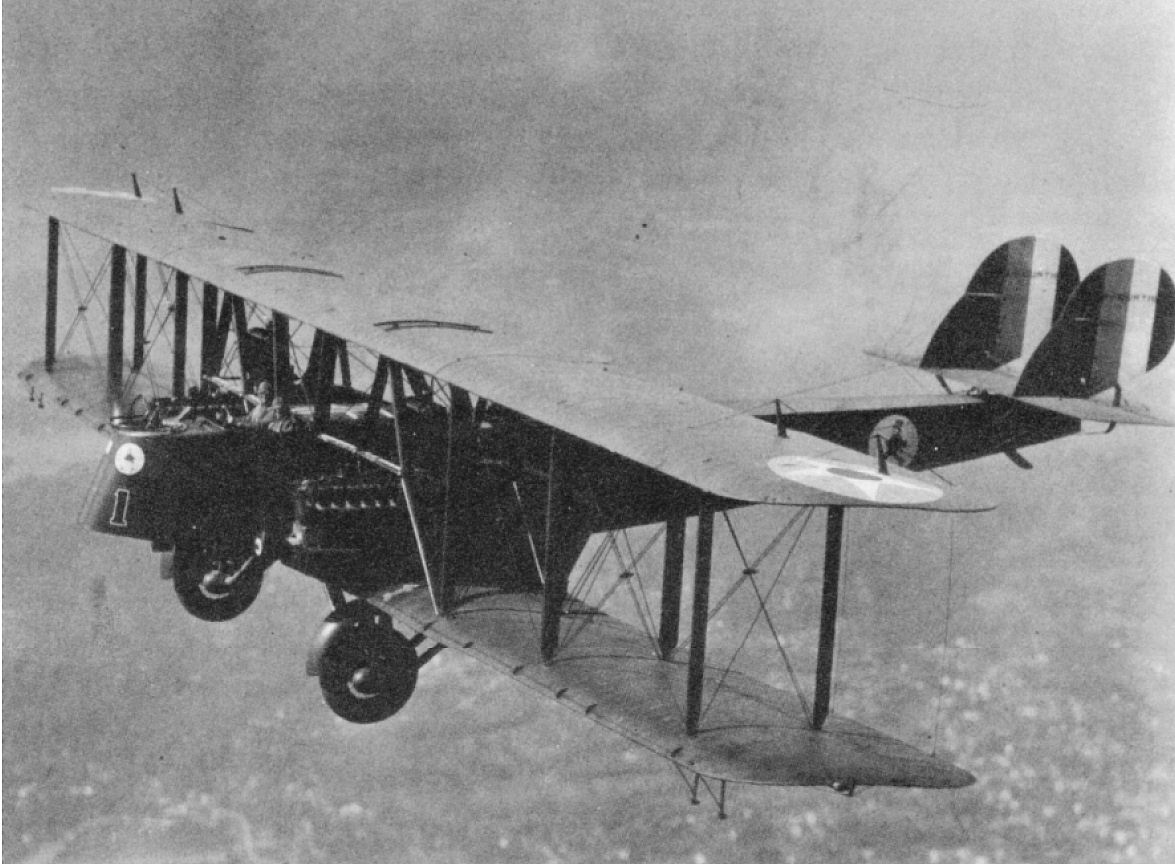 Martin MB-2 (Redesignated NBS-1) one of fifty built by Curtiss as part of Army policy of dividing orders amoung hard-pressed manufacturers during the postwar era